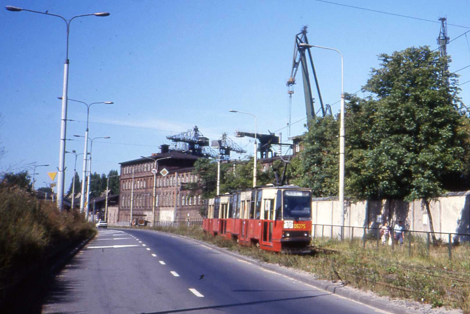 A Konstal 105Na tram in Gdańsk, outside the shipyard in Gdańsk, Jana z Kolna Street. Route 10 to Siedlce.